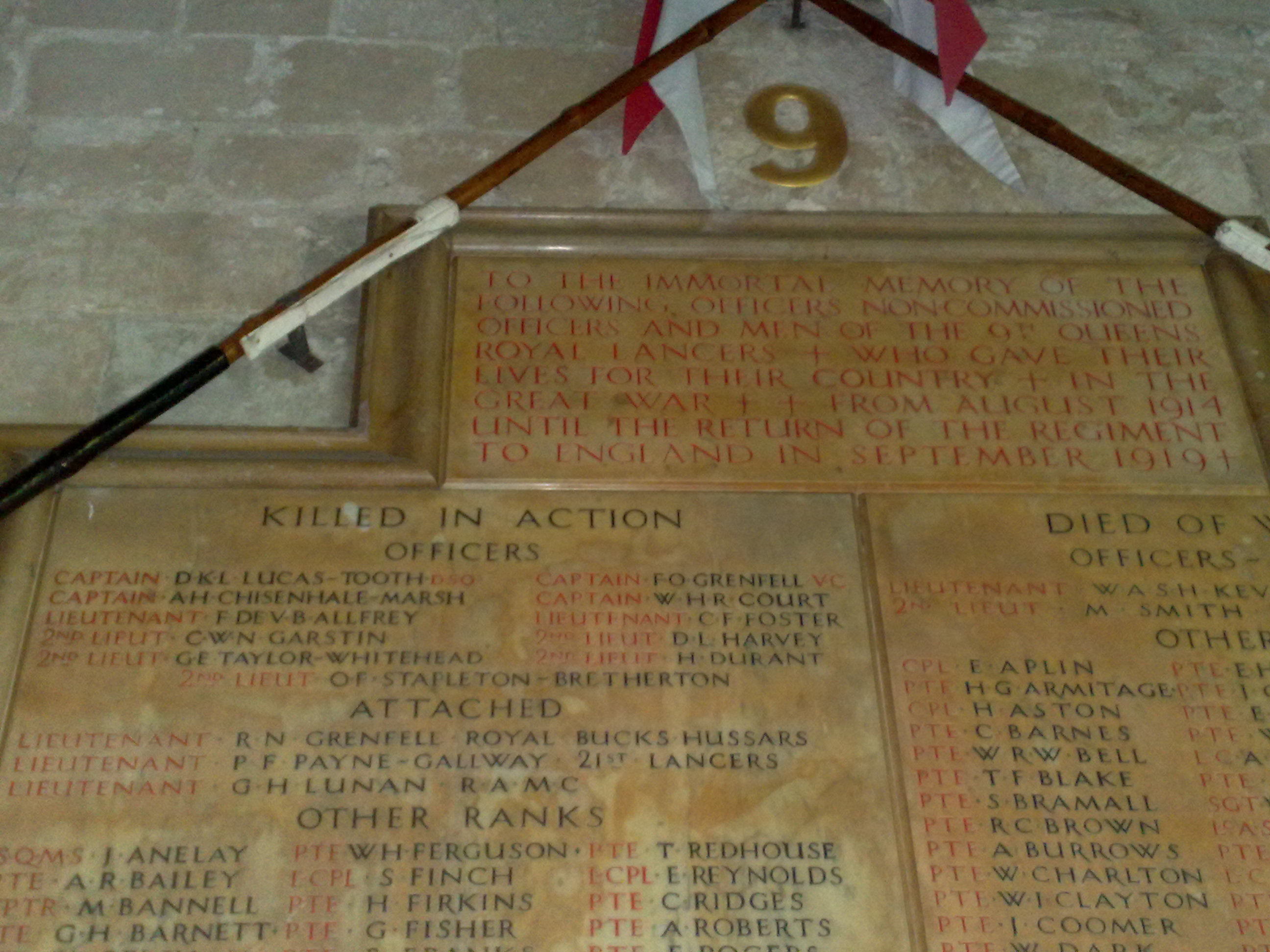 Detail of the memorial board in the cloisters of Canterbury Cathedral to the officers and men of the 9th (Queen's Royal) Lancers who died during the First World War. In particular are visible the names of the Grenfell twins, who were both killed in action whilst serving with the regiment.